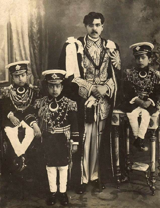 King Tribhuwan of Nepal and sons; Crown Prince (later King) Mahendra, Prince Basundhara and Prince Himalaya Pratap